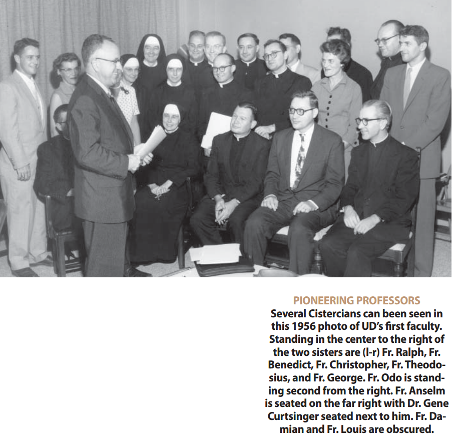 A picture of the founding group of professors for the University of Dallas in September 1956 including 9 Hungarian Cistercian Priests.